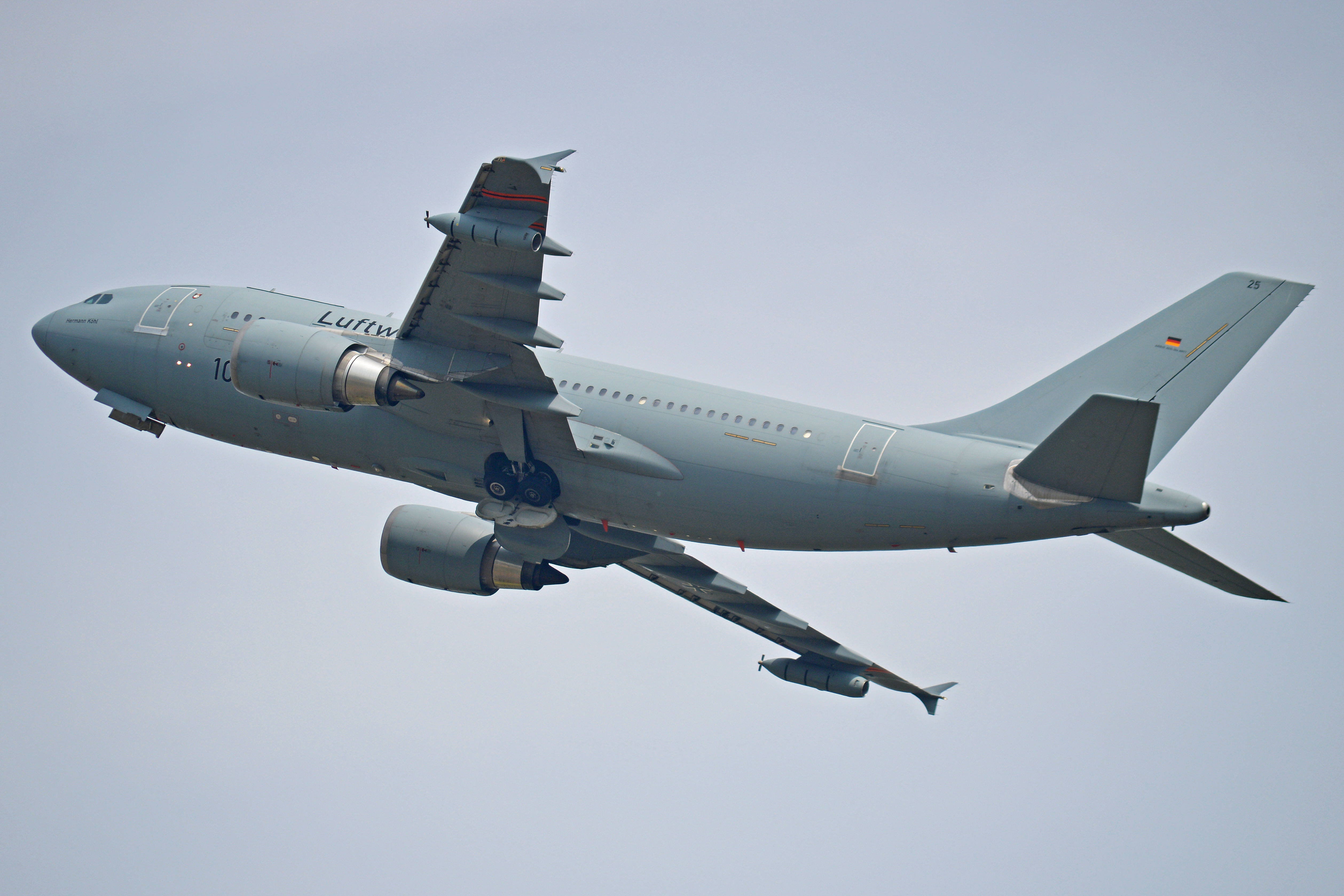 Operated by FBS BMVg, German Air Force. This A310 tanker was converted from a civil airliner, its previous existence being as 'D-AIDB' with Lufthansa. c/n 484. Seen departing the 2013 RIAT at Fairford. 22-7-2013